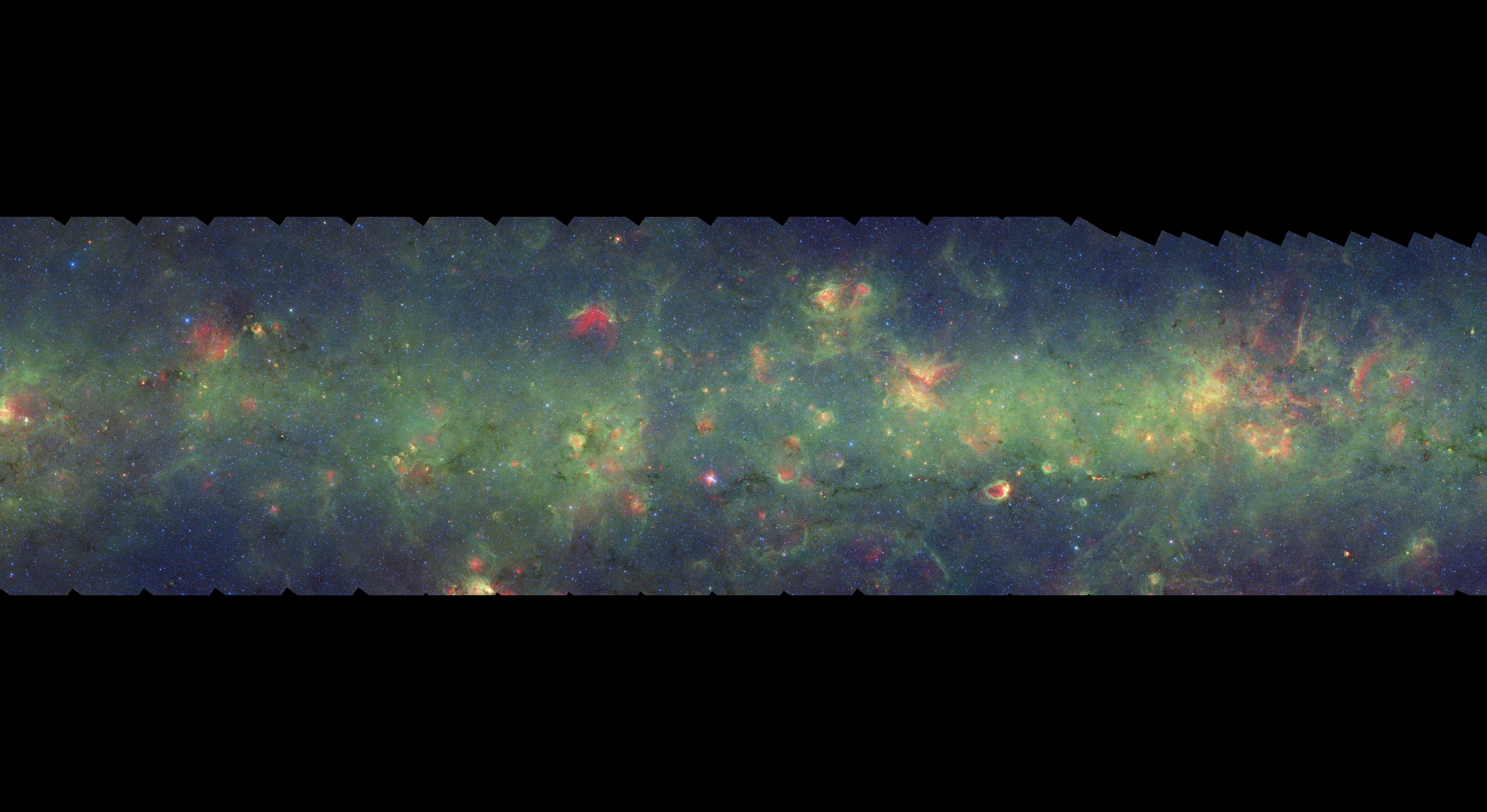 This is one segment of an infrared portrait of dust and stars radiating in the inner Milky Way. More than 800,000 frames from NASA's Spitzer Space Telescope were stitched together to create the full image, capturing more than 50 percent of our entire galaxy. As inhabitants of a flat galactic disk, Earth and its solar system have an edge-on view of their host galaxy, like looking at a glass dish from its edge. From our perspective, most of the galaxy is condensed into a blurry narrow band of light that stretches completely around the sky, also known as the galactic plane. This segment extends through the constellations Scorpius, Ara, and Norma. The flat band of green running through this region is mostly dust in the distant disk of the Milky Way galaxy. In visible light the foreground dust renders this area nearly featureless and dark with only a scattering of nearby stars. The swaths of green represent organic molecules, called polycyclic aromatic hydrocarbons, which are illuminated by light from nearby star formation, while the thermal emission, or heat, from warm dust is rendered in red. Star-forming regions appear as swirls of red and yellow, where the warm dust overlaps with the glowing organic molecules. The blue specks sprinkled throughout the photograph are Milky Way stars. This survey segment spans galactic longitudes of 335.2 to 343.5 degrees and is centered at a galactic latitude of 0 degrees. It covers about two vertical degrees of the galactic plane. This is a three-color composite that shows infrared observations from two Spitzer instruments. Blue represents 3.6-micron light and green shows light of 8 microns, both captured by Spitzer's infrared array camera. Red is 24-micron light detected by Spitzer's multiband imaging photometer. This combines observations from the Galactic Legacy Infrared Mid-Plane Survey Extraordinaire (GLIMPSE) and MIPSGAL projects.